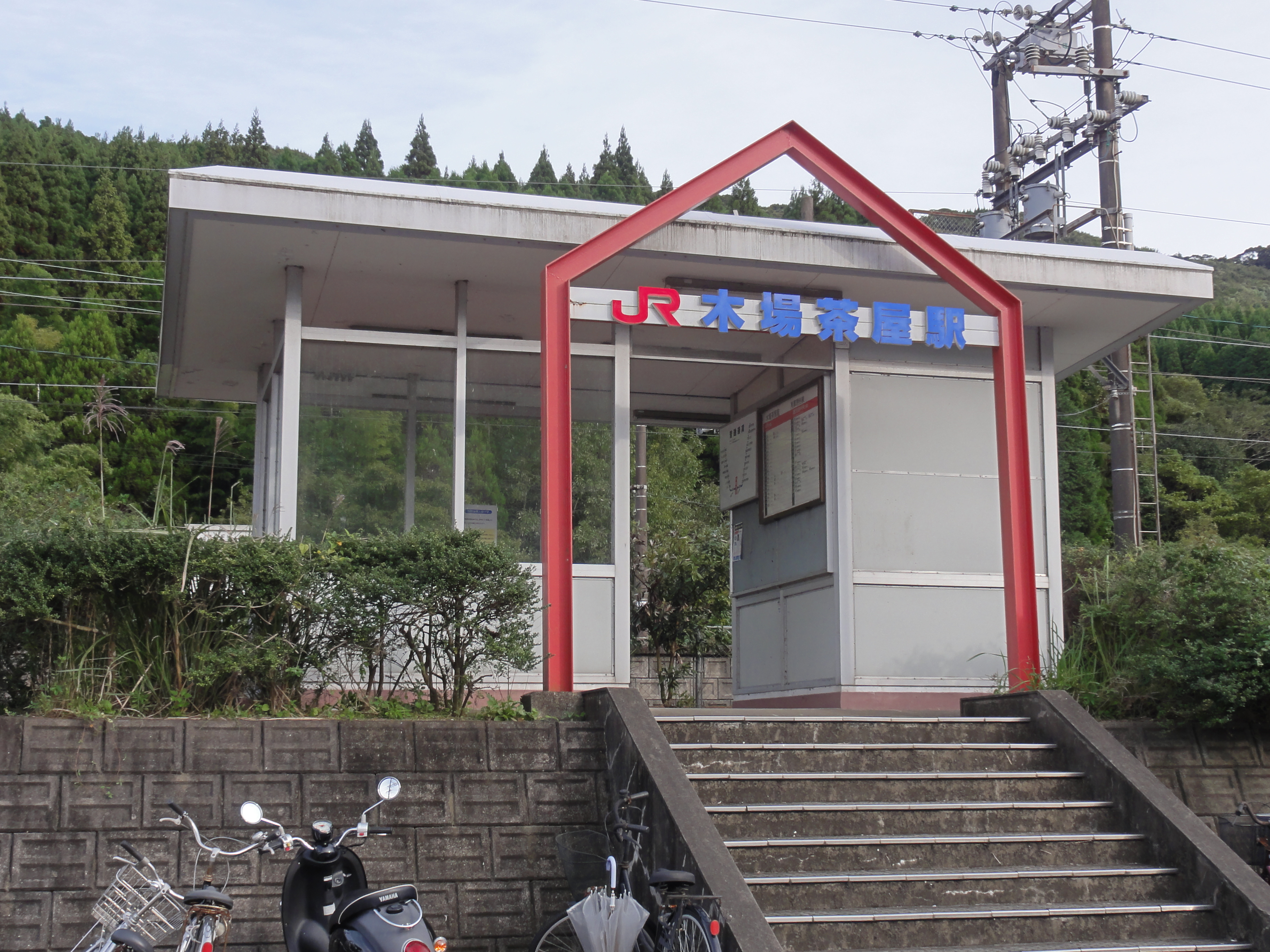 Kobanchaya Station, Kagoshima Pref., Japan